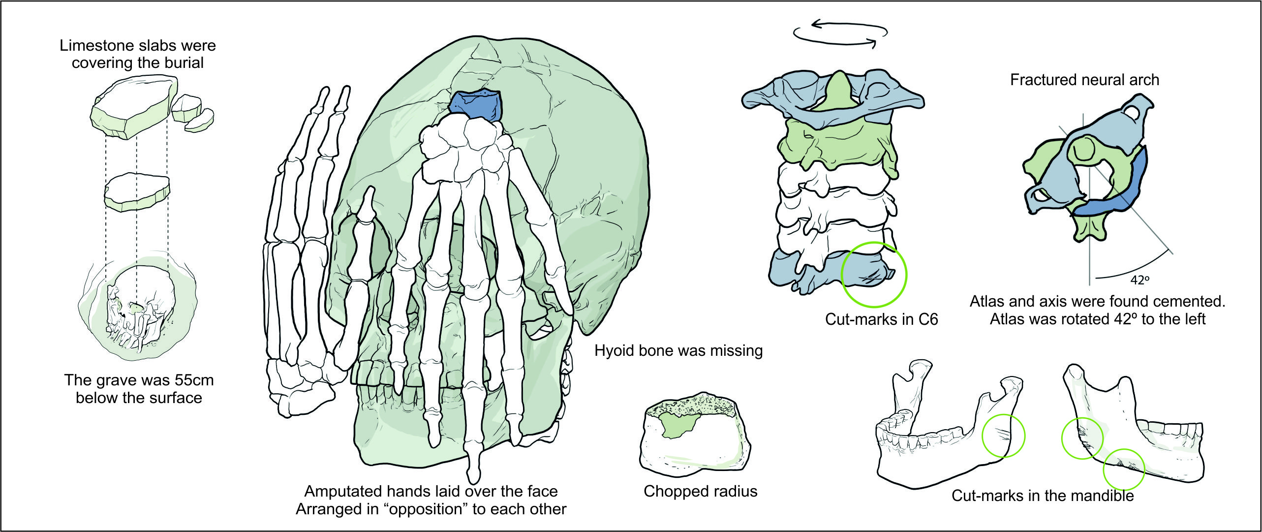 Schematic representation of Burial 26 from Lapa do Santo. [1]